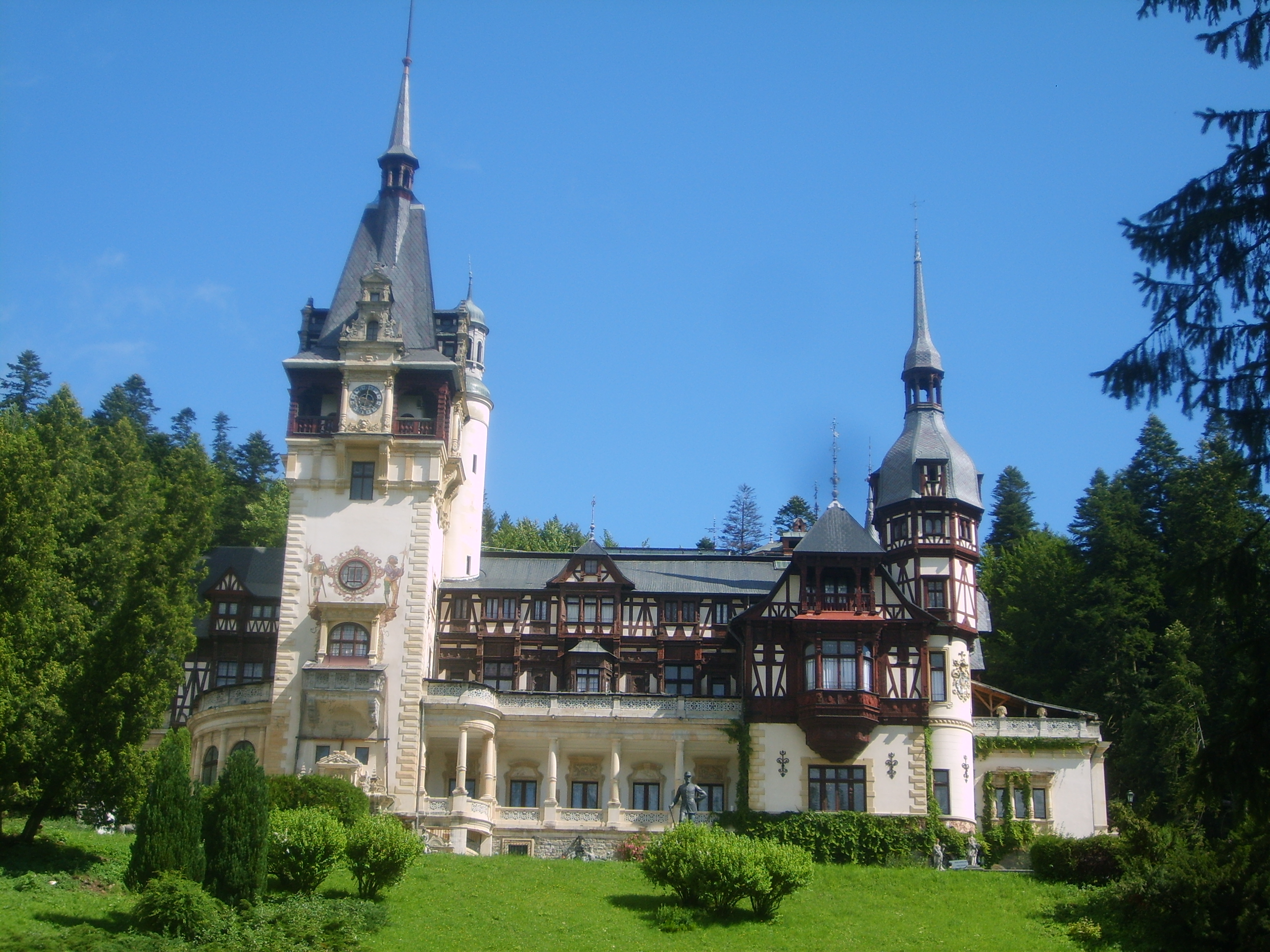 Peleş Castle